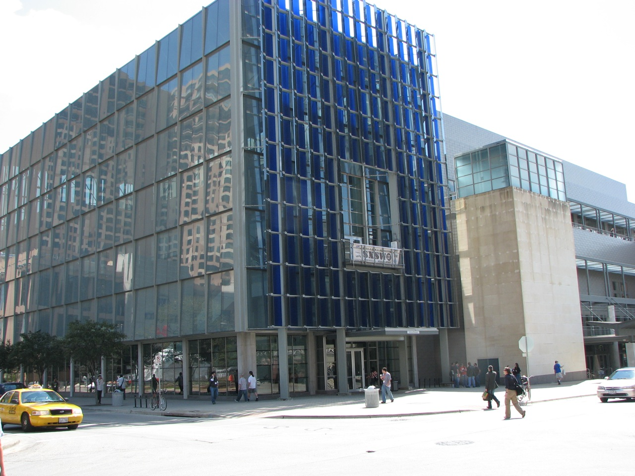 Austin Convention Center (picture taking facing the northwest corner)